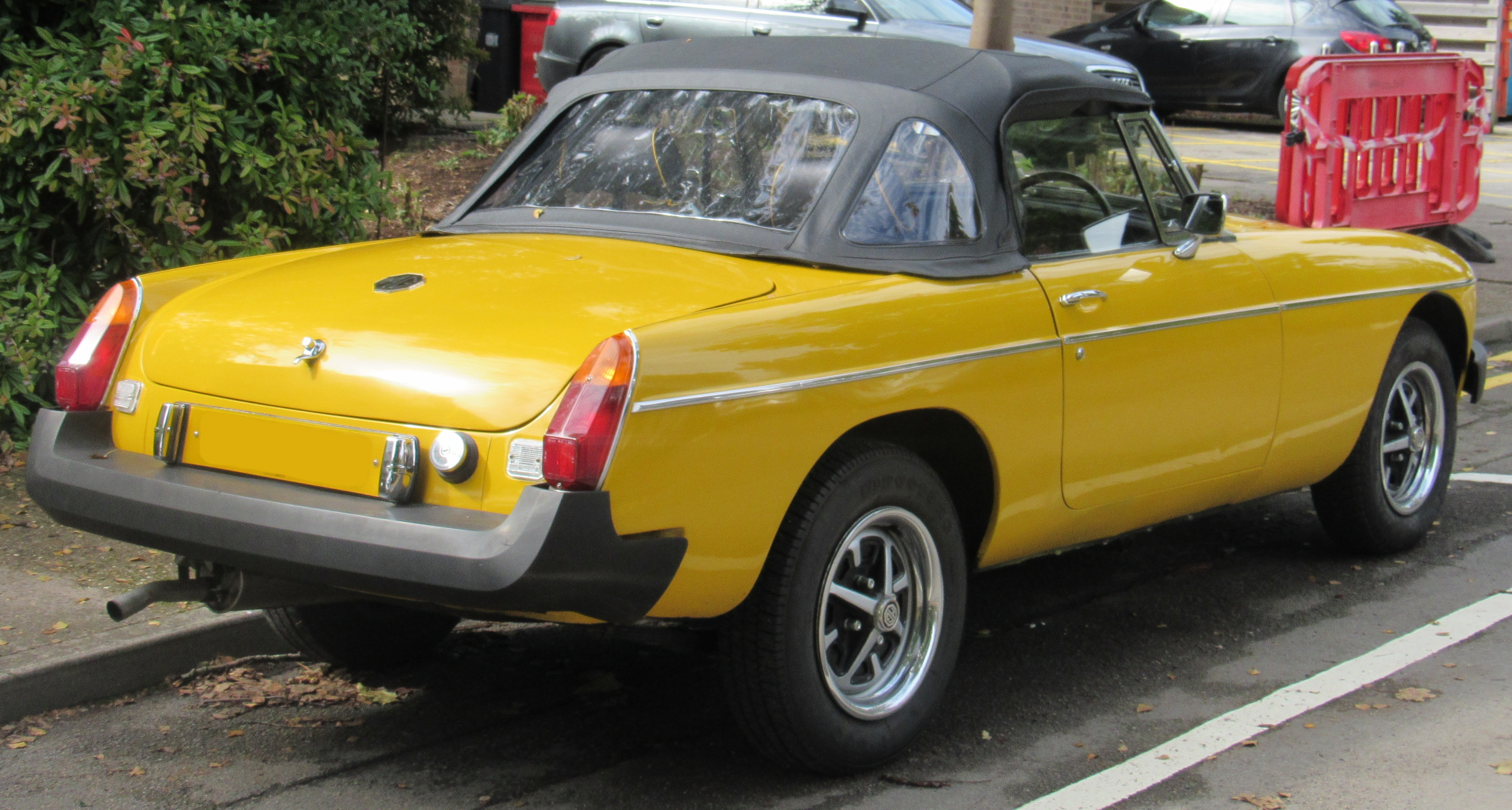 1978 MG B 1.8 Rear Taken in Leamington Spa